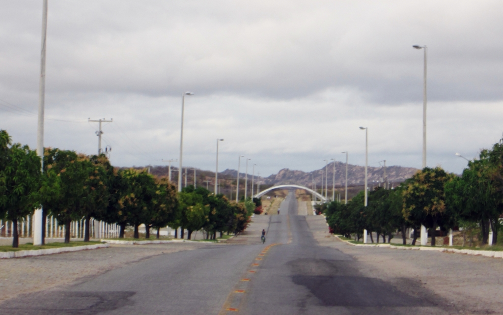 São Fernando, RN - BR.